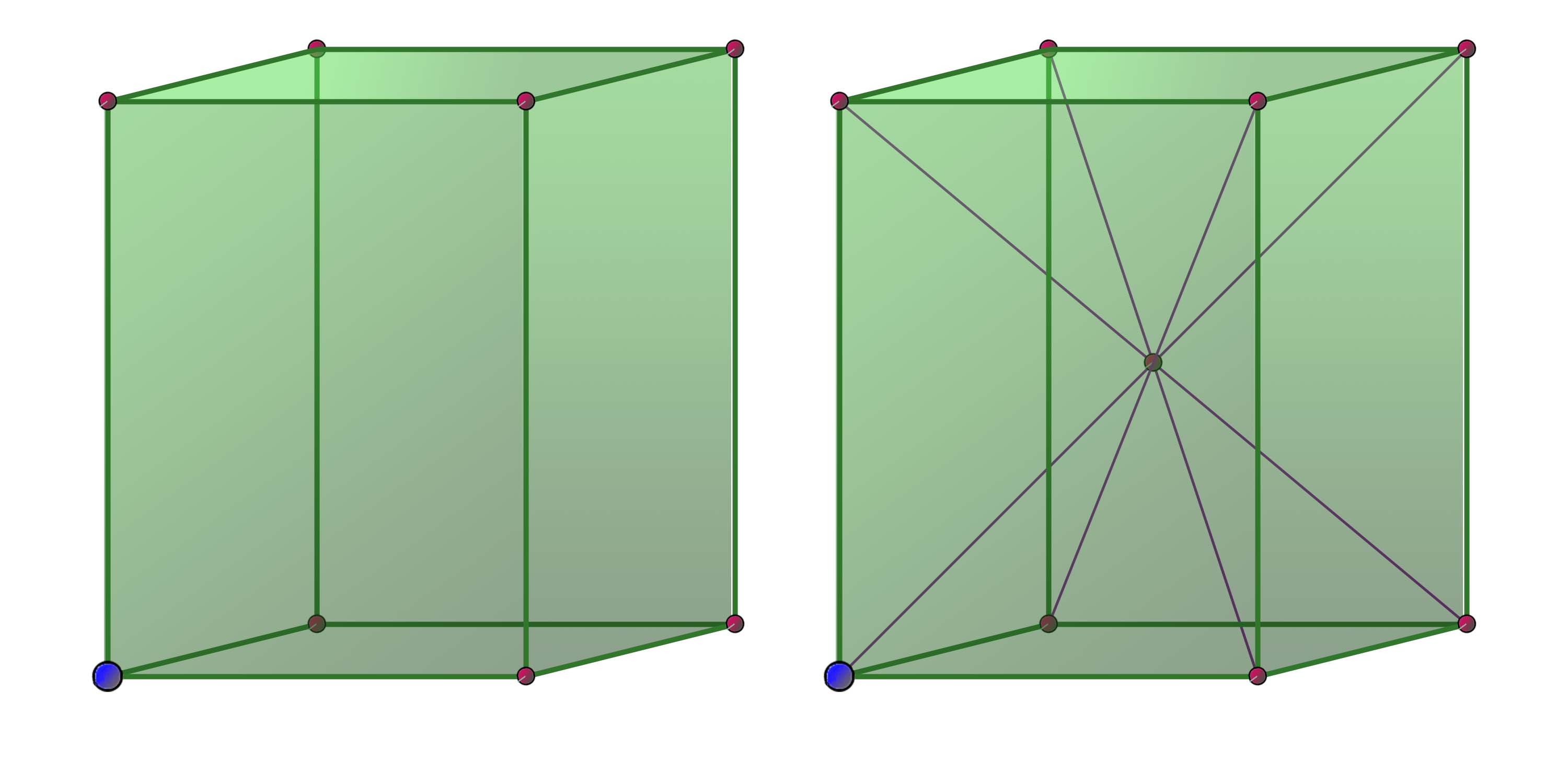 Tetragonal crystal structure